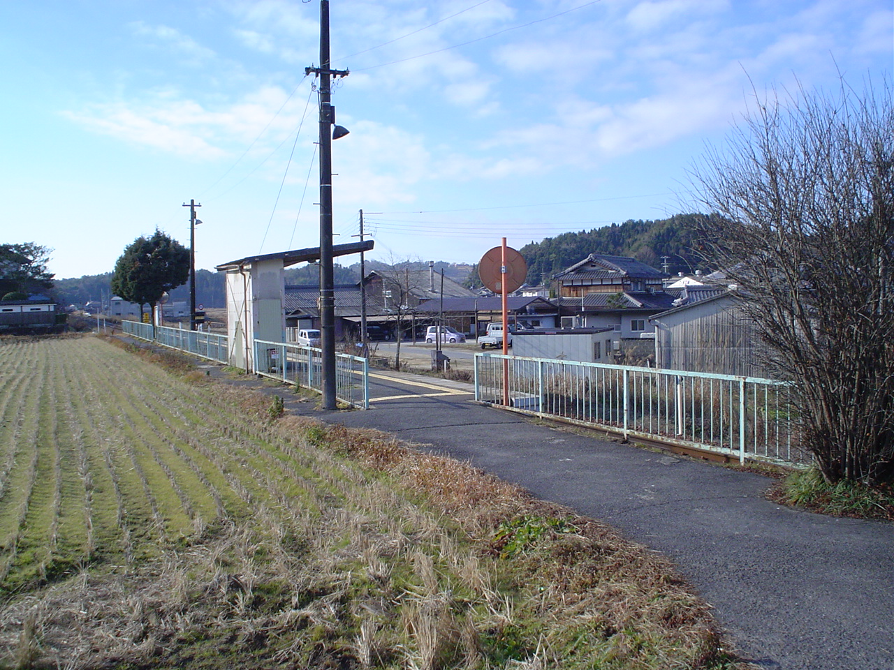 Chokusi Station in Siga pref, Japan